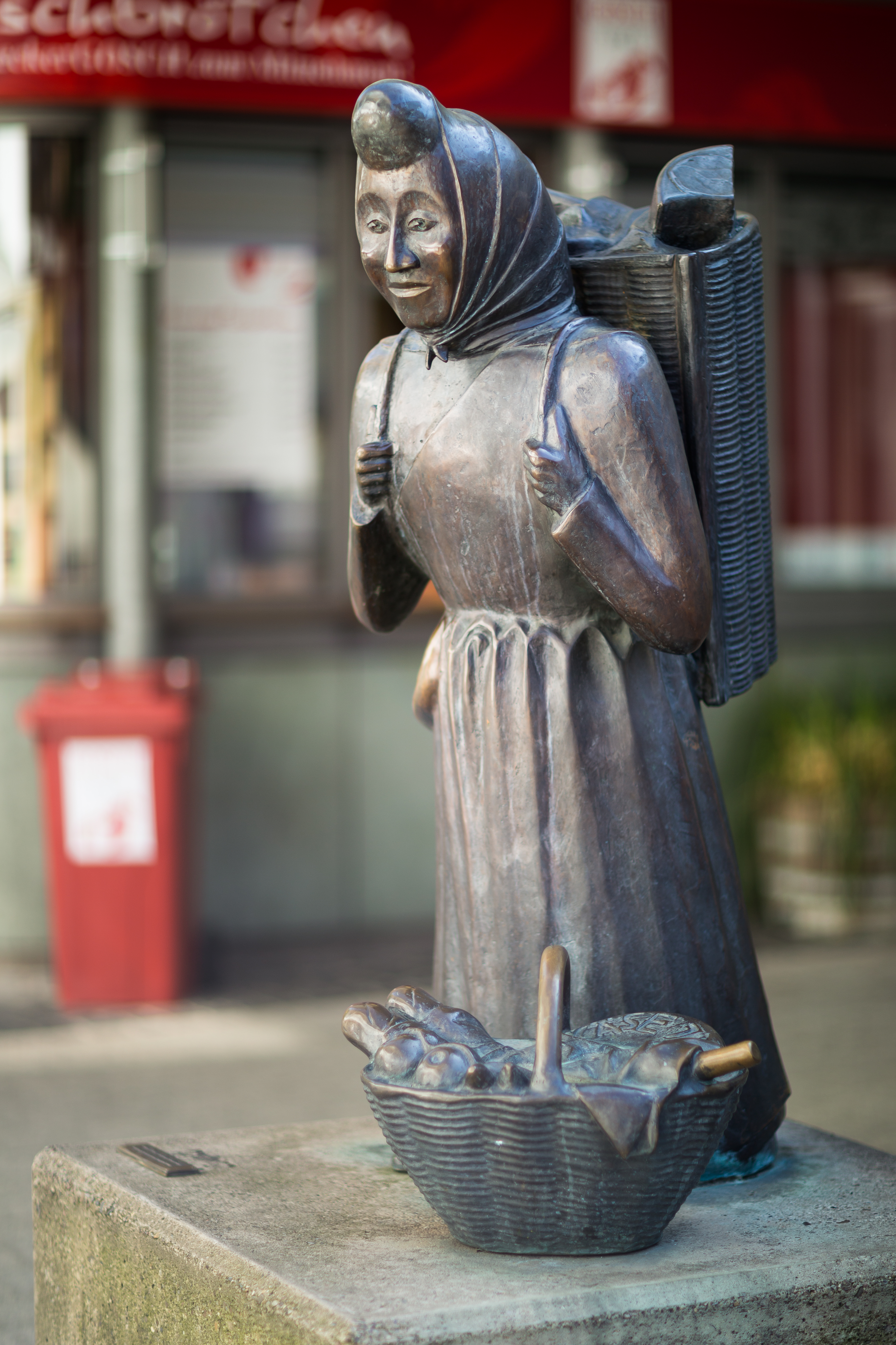 Sculpture "Marktfrau Karoline Duhnsen" by Hans-Juergen Zimmermann in front of the market hall in Hanover, Germany.